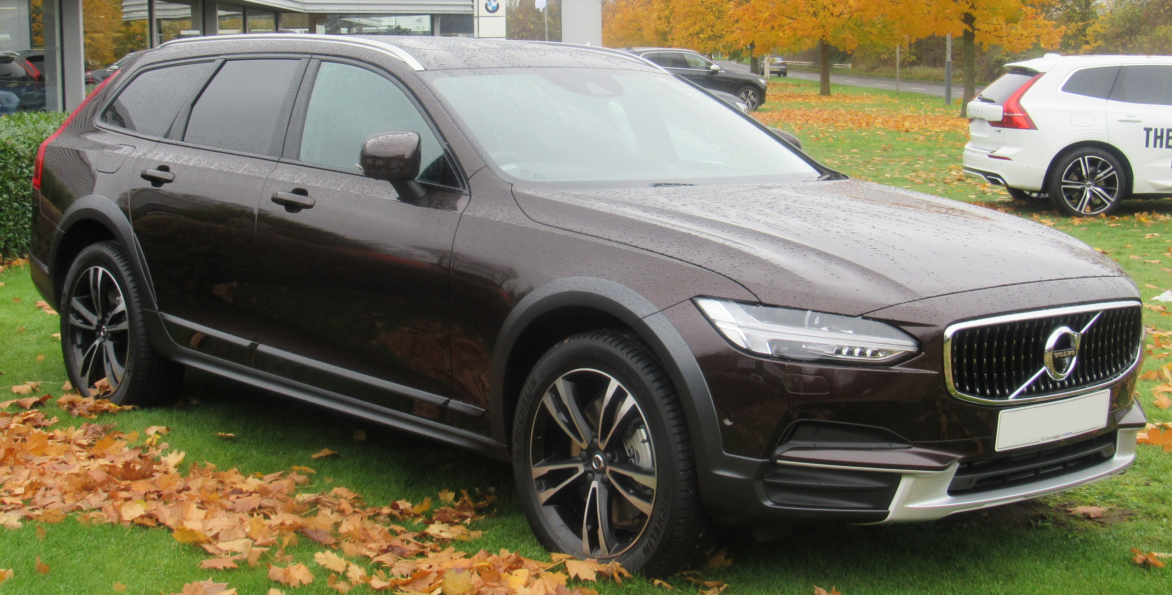 2017 Volvo V90 CRoss Country D5 PP Automatic 2.0 Front Taken in Leamington Spa